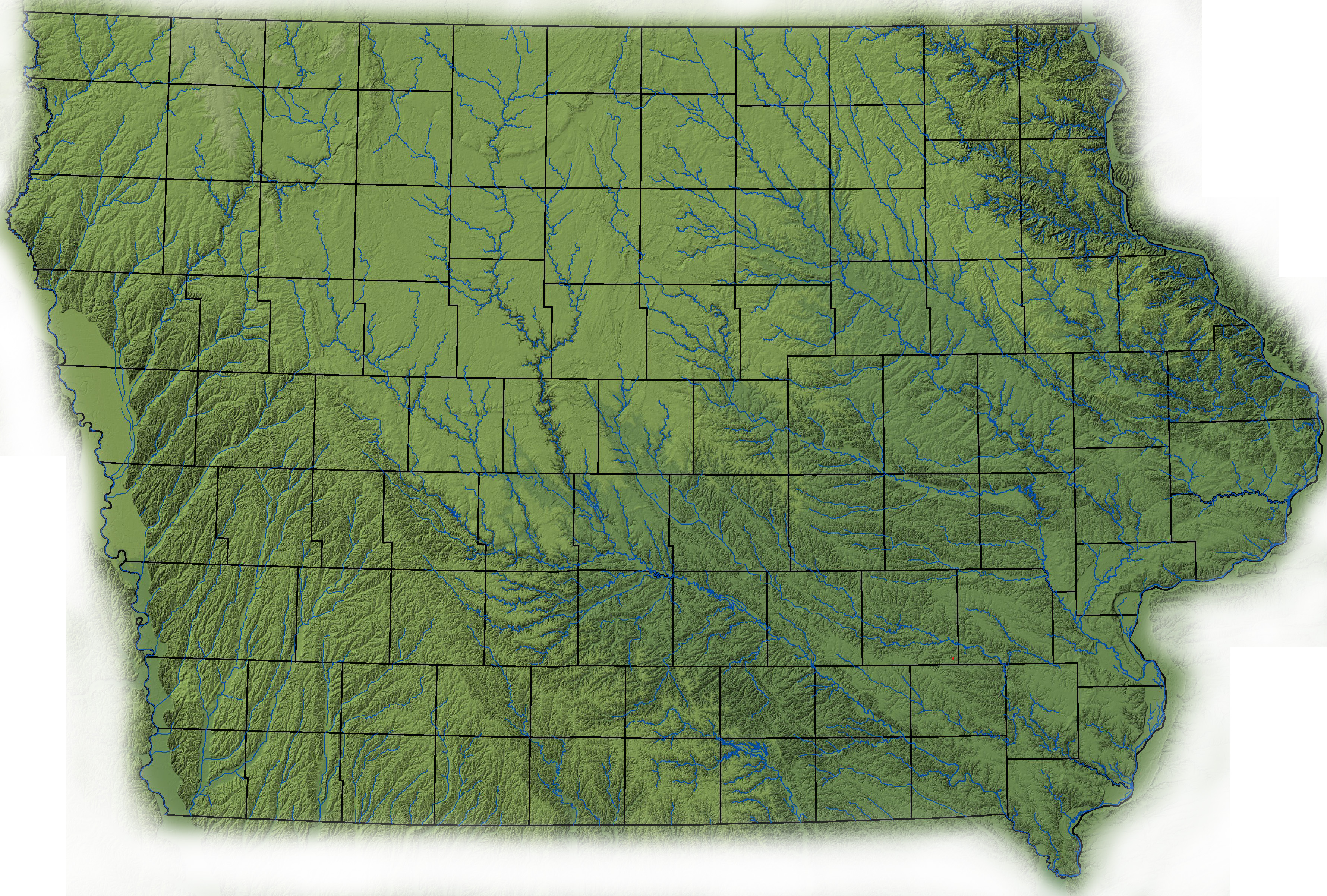 topographic map of Iowa created in ArcMap using ISUGIS 30-M USGS DEM, fade in Photoshop